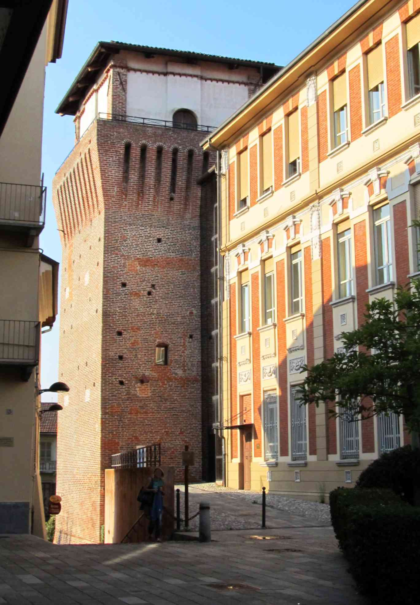 Settimo Torinese (TO, Italy): town hall (with the tower of the former castle)